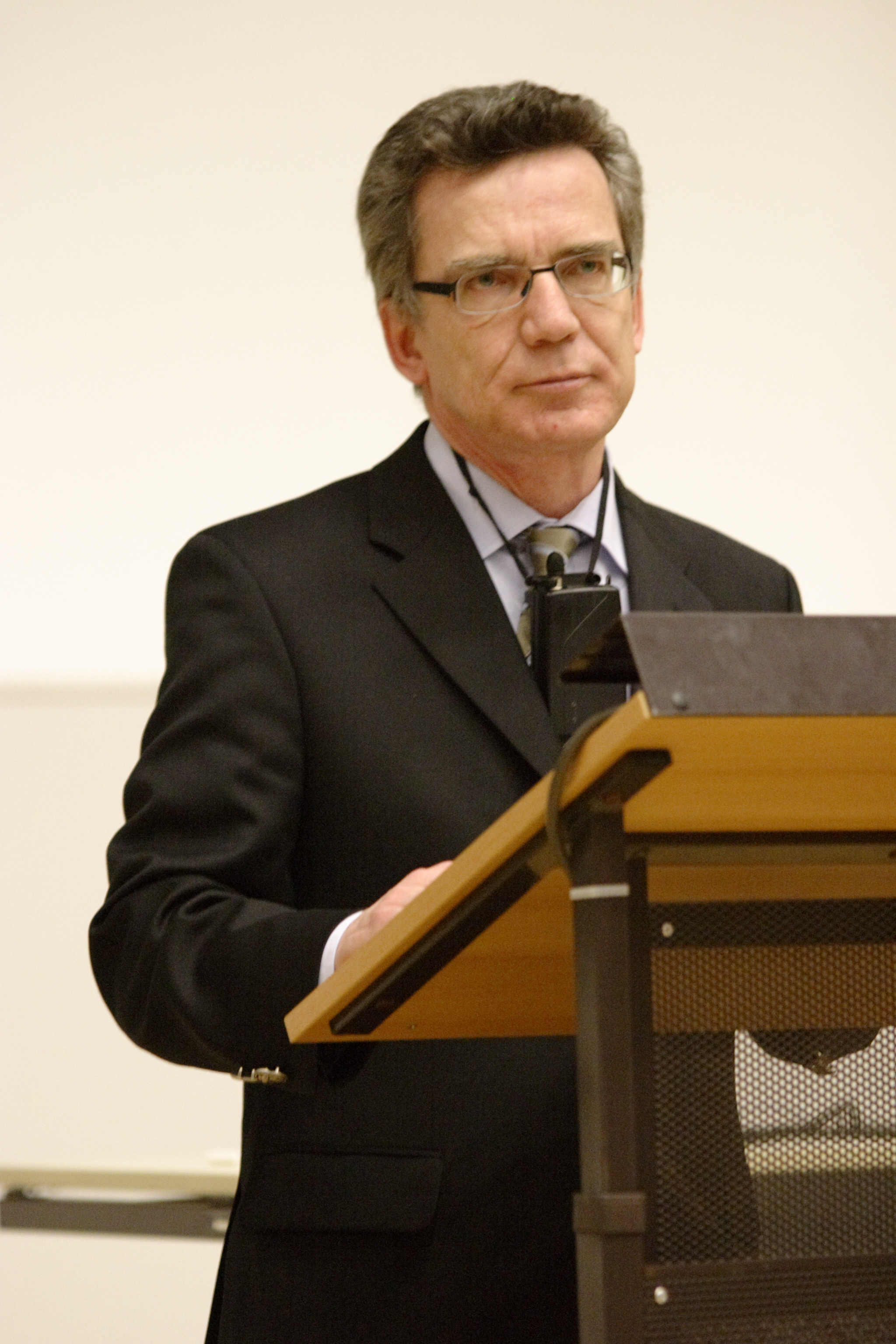 Thomas de Maizière, former Chief of the Chancellor's Office and Federal Minister of Special Affairs, at a speech at the Dresden University of Technology.